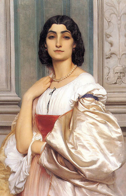 A Roman Lady (Portait of Anna Risi)